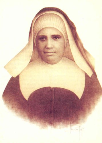 Saint M. Rosa Molas' portrait